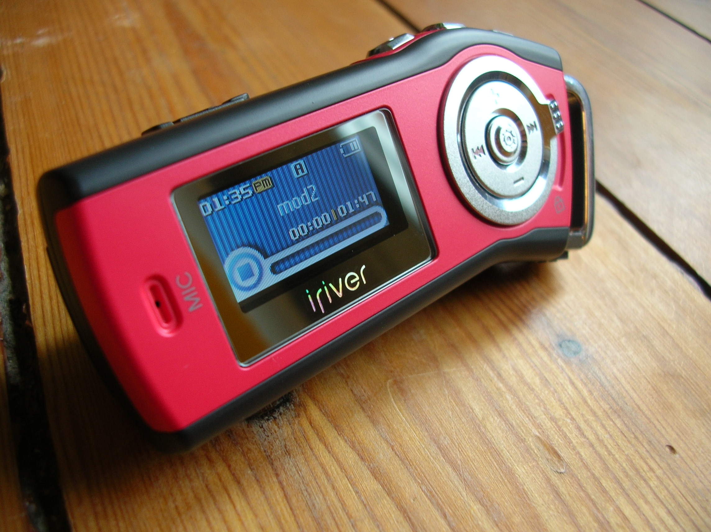 photo of a red iriver t10 portable music player